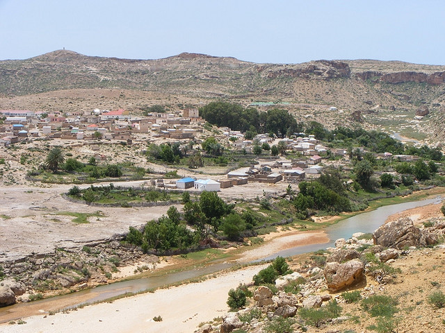 Overview of Eyl town in Puntland, Somalia.